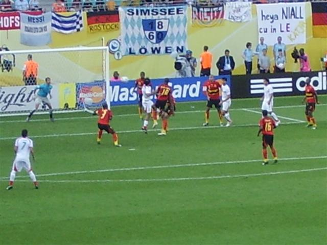 Iran score against Angola during a 2006 FIFA World Cup match.